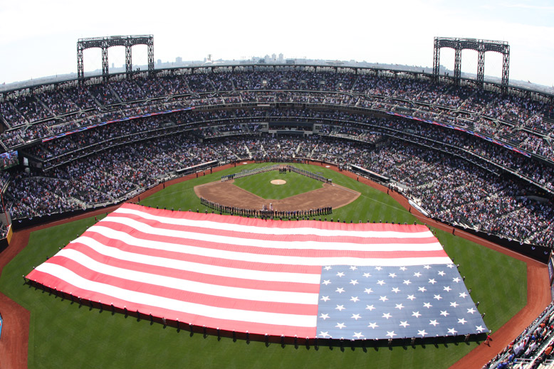 Soldiers, sailors, airmen and Marines participate in the Met's 2010 season opener, unveiling the American flag at Citi Field April 5. Marines with 1st Marine Corps District, 2nd Battalion, 25th Marines and 6th Communications Battalion joined other service members from the area to participate in the event.